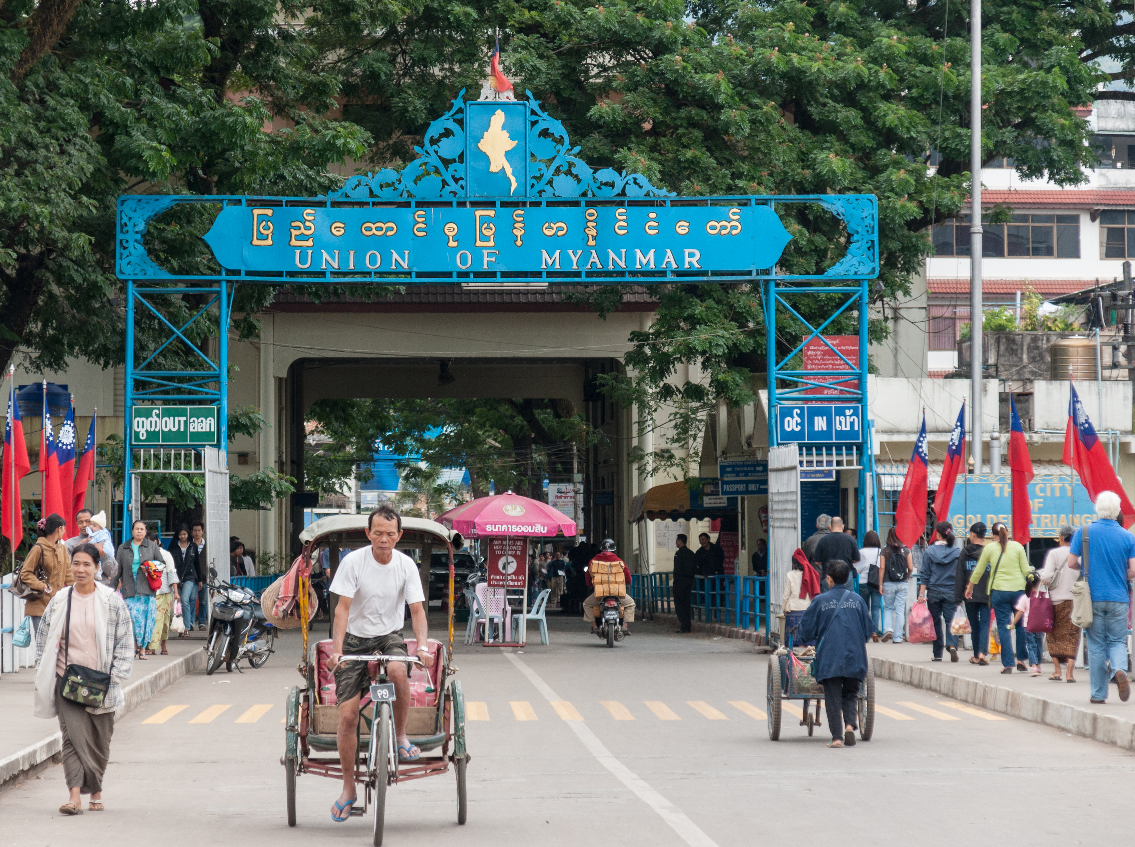 Tachileik, Myanmar / Mai Sai, Thailand: The Myanmar-Thai Border